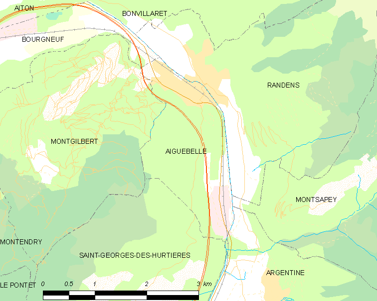 Map of French municipality